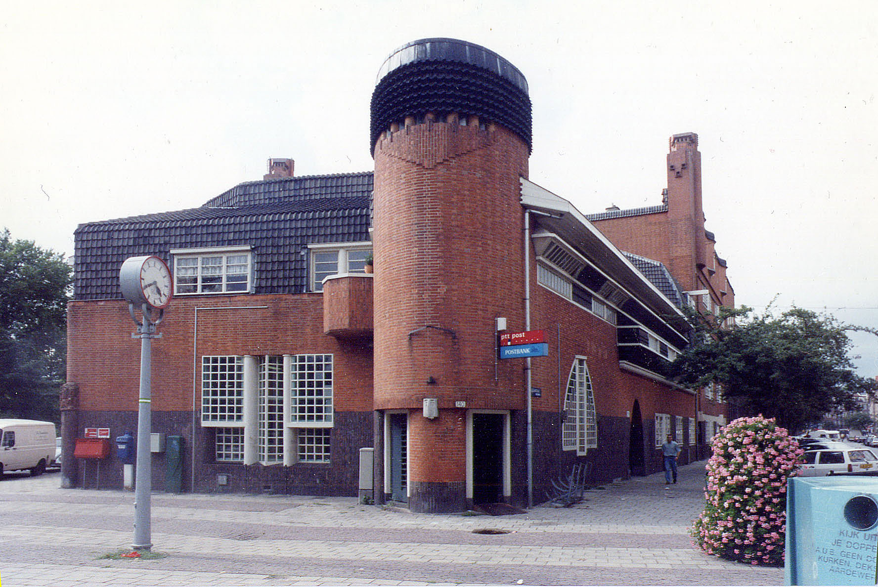 Het Schip housing in the style of the Amsterdam School